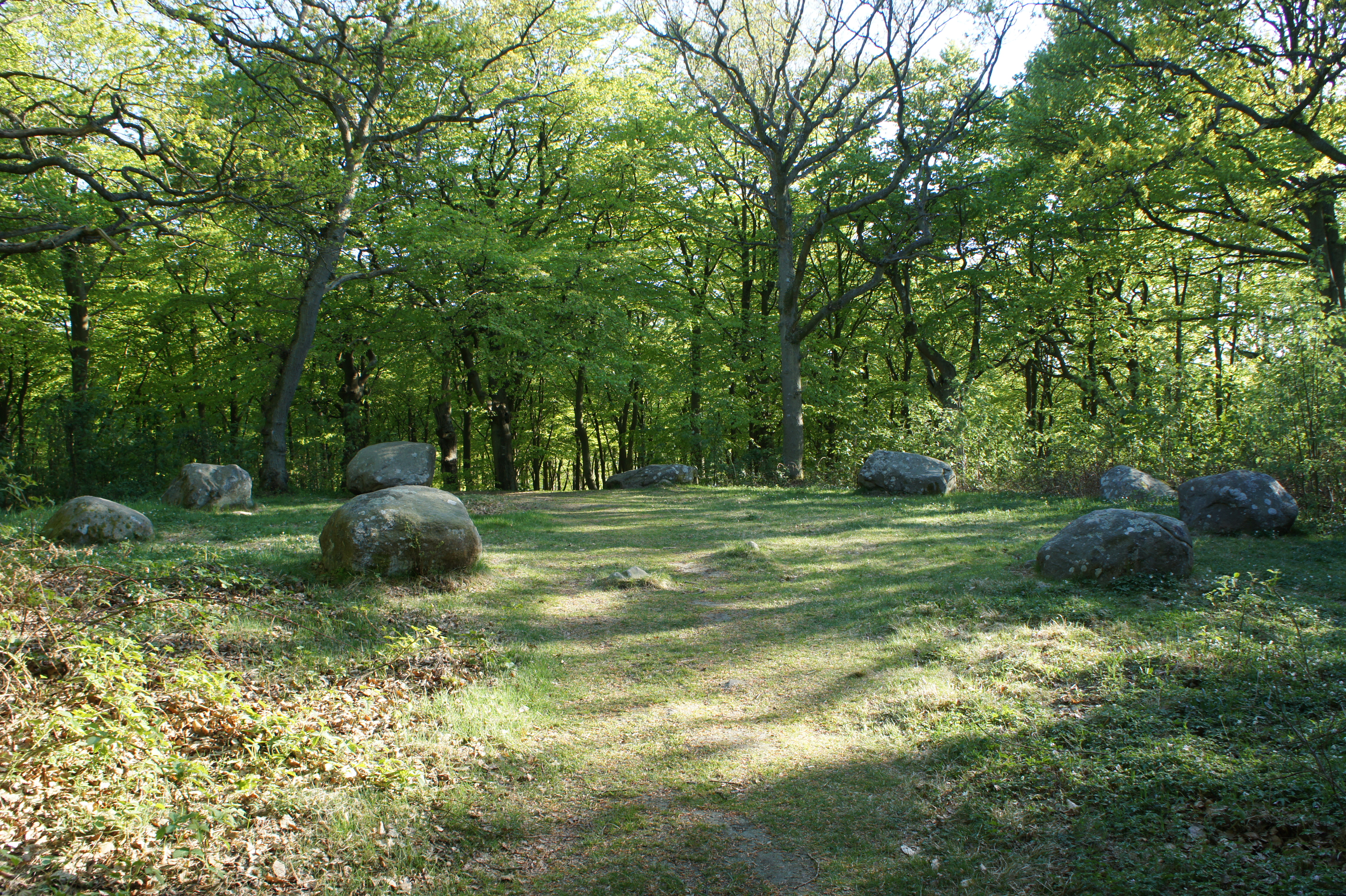 The stone circle at Himmelstorp between Arild and Mölle in Brunnby parish, Höganäs municipality, Luggude hundred, Skåne, Sweden